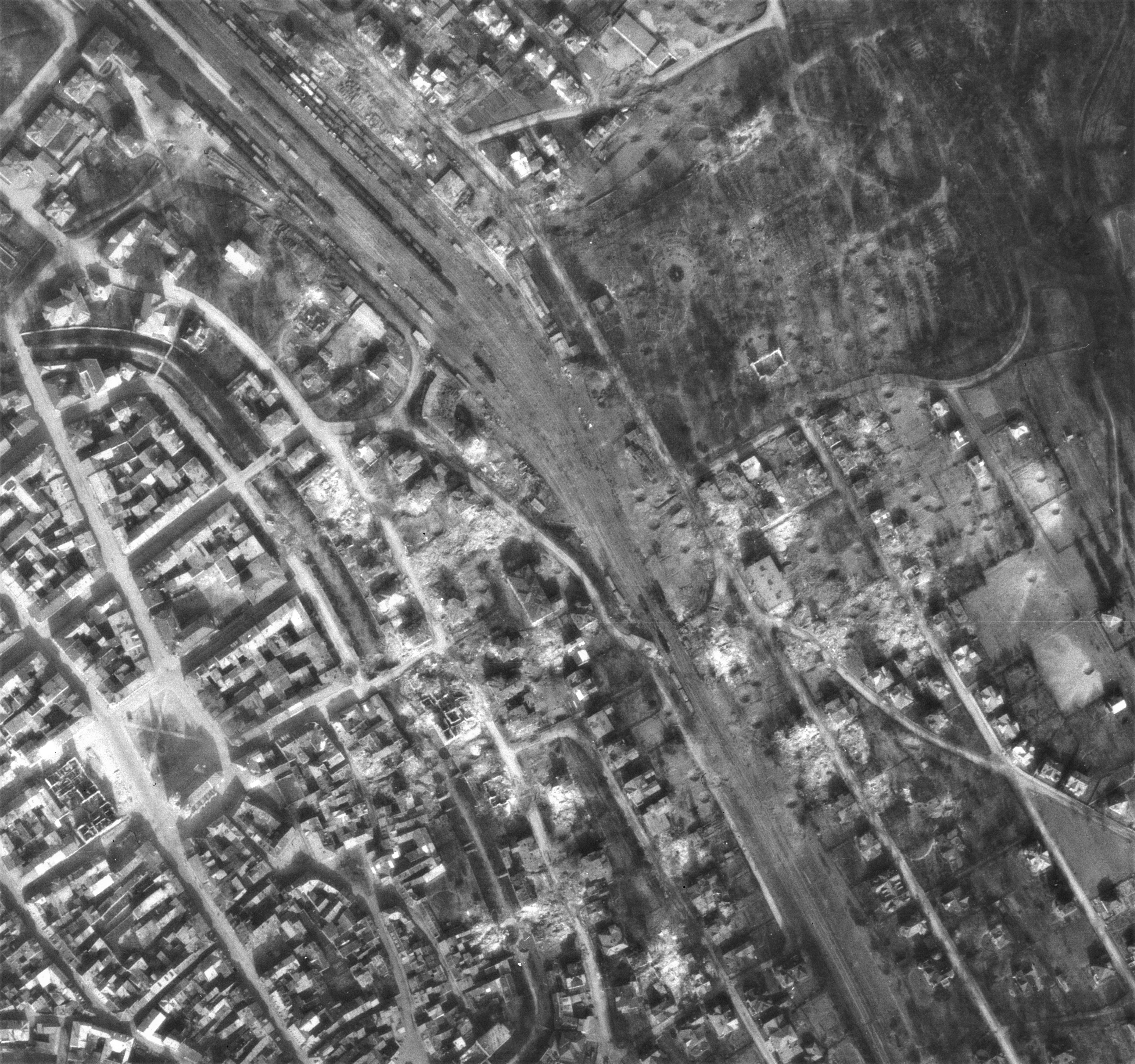 City of Meiningen: aerial photo of the eastern city center, the residential area Berliner Strasse / Frauenbrunnen and the cemetery. This urban area was hit and destroyed most by air attack on 23 February 1945. On the left side of the picture is the Town Hall and bankbuilding, the center of the picture the ruined buildings Chamber of Crafts, district Court, Water management building and the Schulstraße bridge, on the right the high school Realgymnasium and the Graveyard Chapel (above).